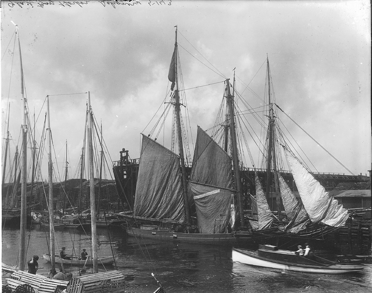 Photograph, Schooners, Glace Bay harbour, Cape Breton, NS, about 1914 Wm. Notman & Son